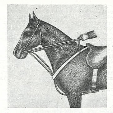 Horse equipment